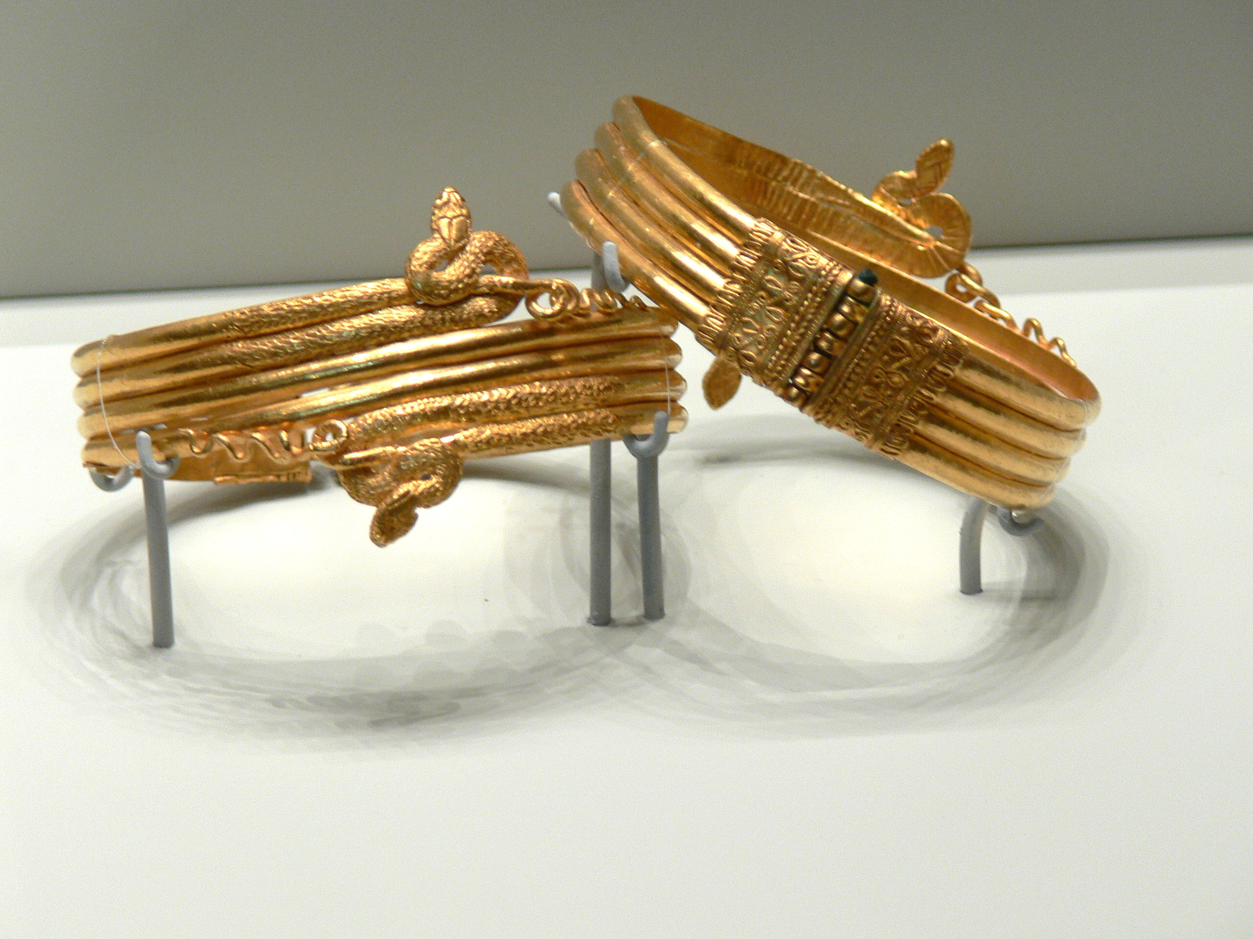 Arm ornaments. Gold. Greek, probably made in Alexandria, Egypt, 220 - 100 B.C. The pieces probably belonged to a noble woman of the Ptolemaic dynasty in Egypt. Coiled snakes are symbols of death and rebirth